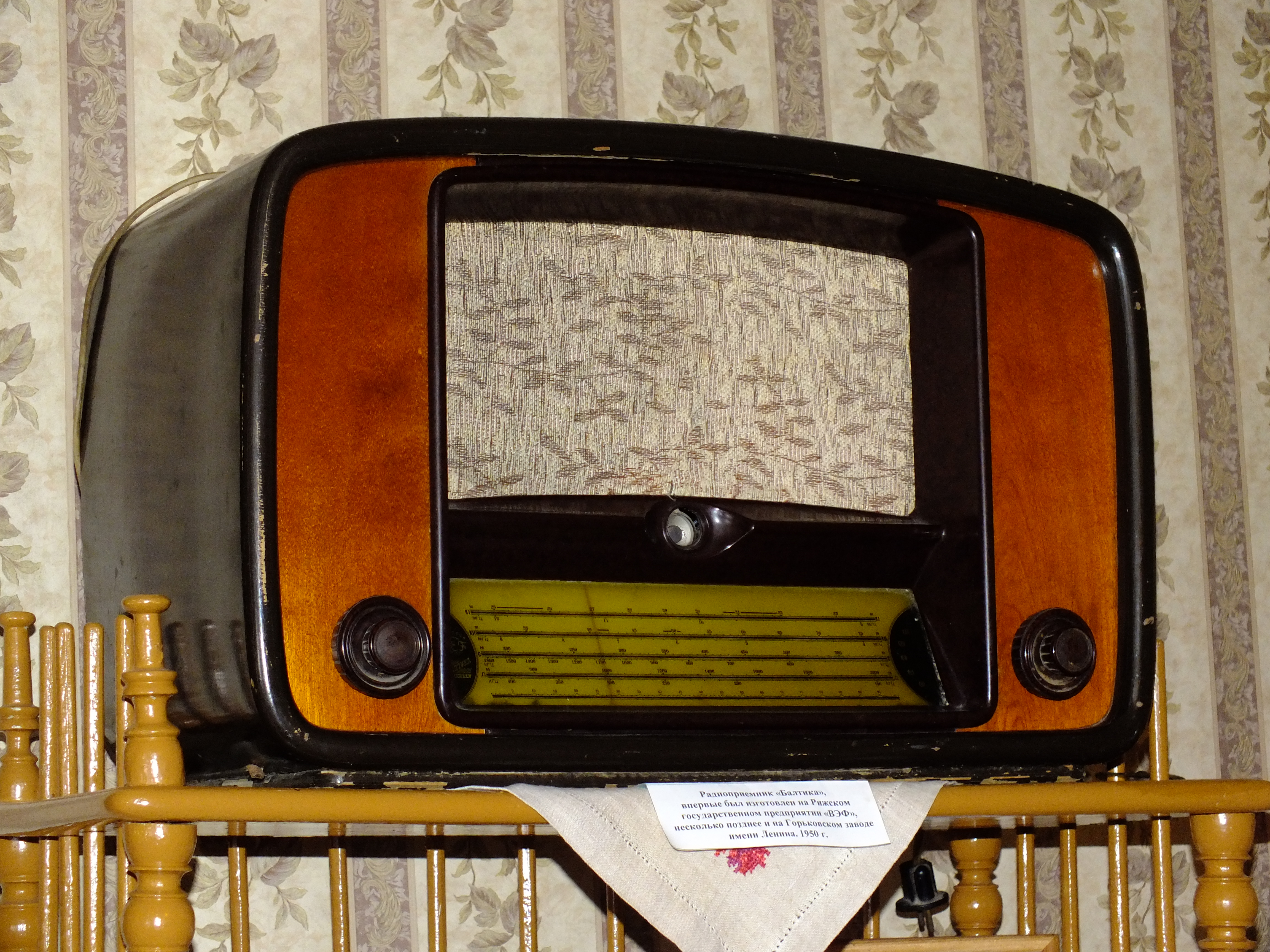 VEF Baltika, USSR, 1950. Six-tube superhet, produced concurrently in Riga and in Nizhny Novgorod